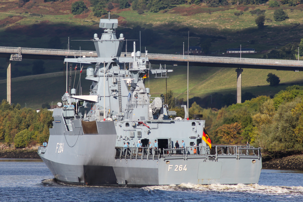 F264 FGS Ludwigshafen am Rhein, German Navy, headed down the River Clyde for the start of the Joint Warrior 16-2 exercise